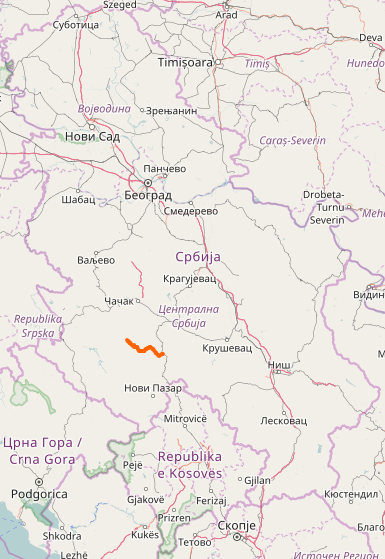 OpenStreetMap of State Road 30 in Serbia.